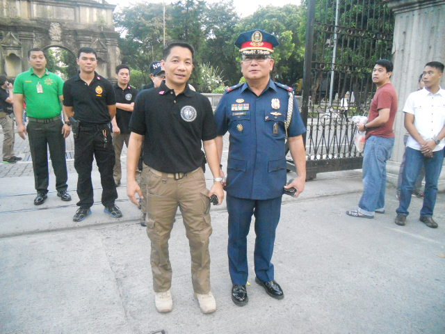 This photo features National Bureau of Investigation Supervising Agent RAOUL S. MANGUERRA, Chief Counter Terrorism Division with Philippine National Police Chief Supt. ISAGANI F. GENABE, District Director of the Manila Police standing side by side at Gate 4 of the University of Santo Tomas, Espana, Manila during the early morning hours of Sunday, the 6th of October 2013. The MPD PNP under PChief Supt. GENABE is the lead agency in securing the Bar Exams while the NBI contingent serves as a support element under SA MANGUERRA.